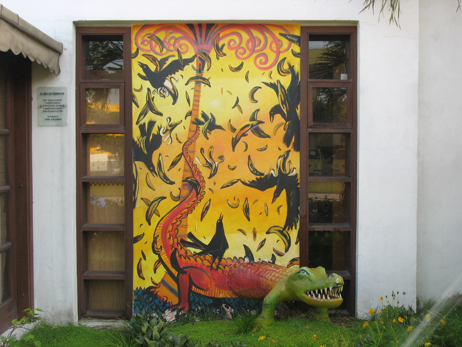 Barranquilla mural La Cueva